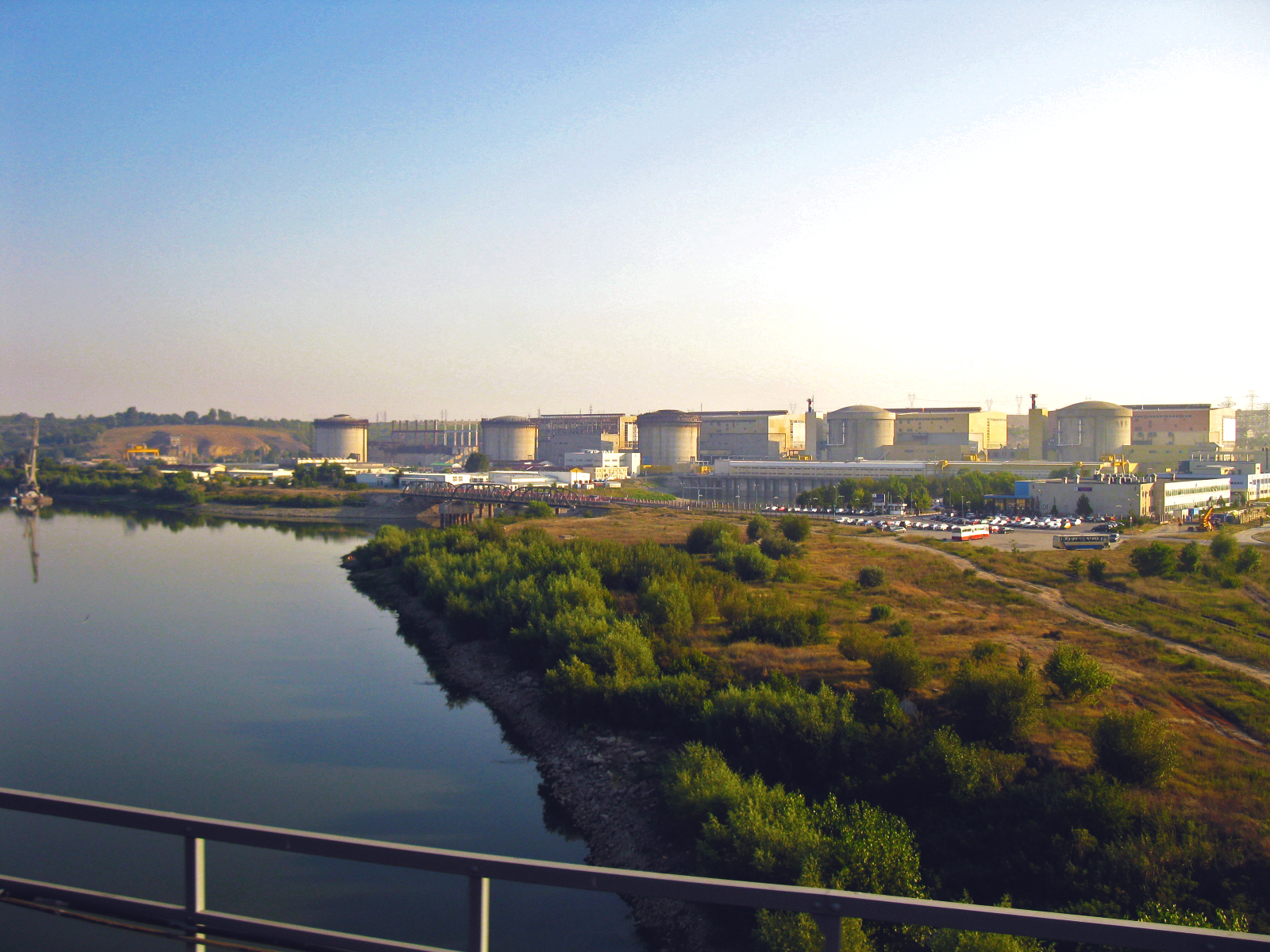 Cernavodă NPP